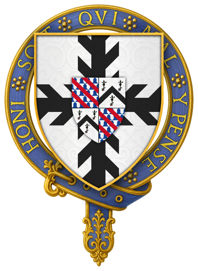 Coat of arms of Sir William Sandys, KG Lord Sandys' stall plate remains installed within St. George's Chapel. The arms are: Argent, a cross ragulée sable (Sandys), with an eschutcheon of pretence quarterly of 4: 1 and 4: Gules, three bends vair (Bray ancient); 2 and 3: Argent, a chevron between three eagle's legs erased sable armed gules (Bray modern). For Bray (ancient) see File:Arms WilliamBrooke 10thBaronCobham (1527-1597) CobhamChurch Kent.xcf and D'Elboux, R.H., The Brooke Tomb, Cobham, published in Archaeologia Cantiana, Vol.62, 1949, pp.48-56, esp. pp.50-1[1]